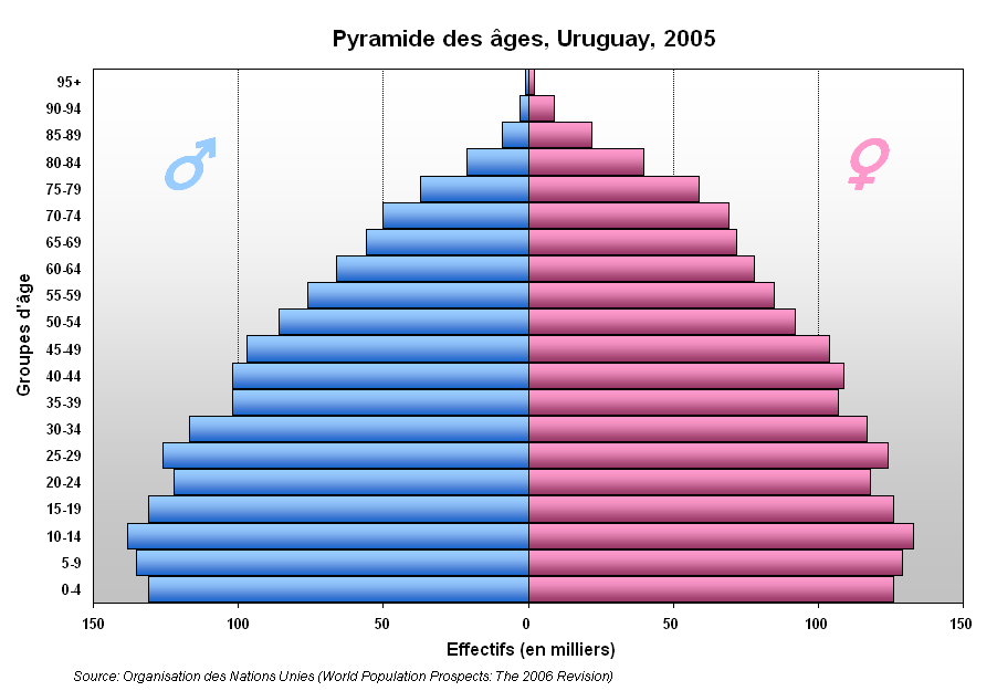 Uruguay Population pyramid, 2005